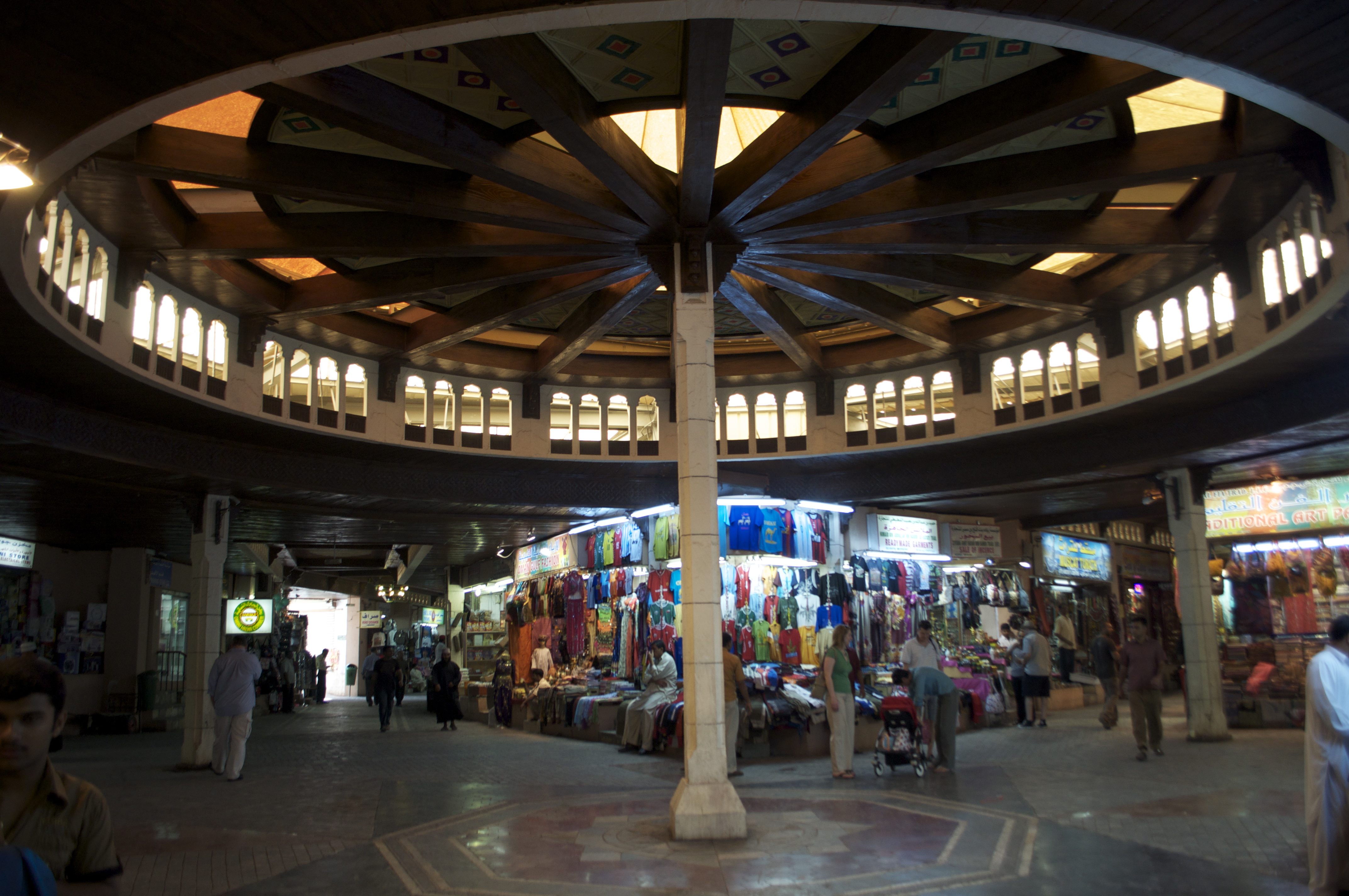 Old Muttrah Souk in Muscat, Oman